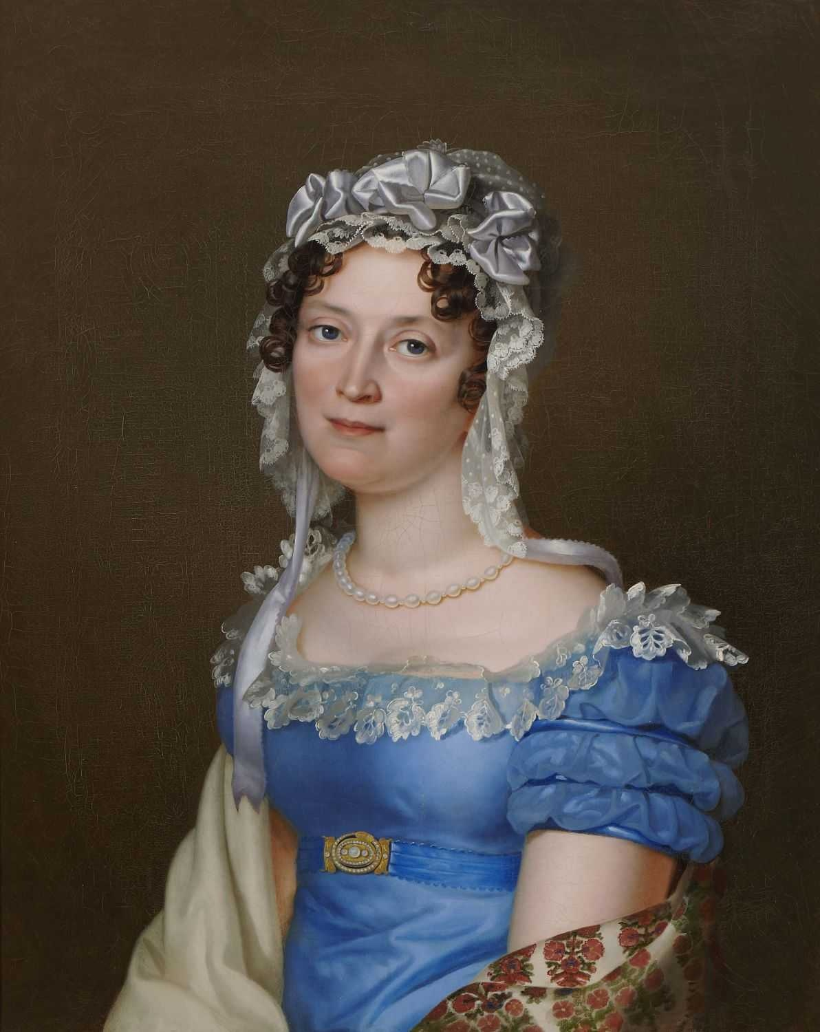 Princess Catherine of Wurttemberg.